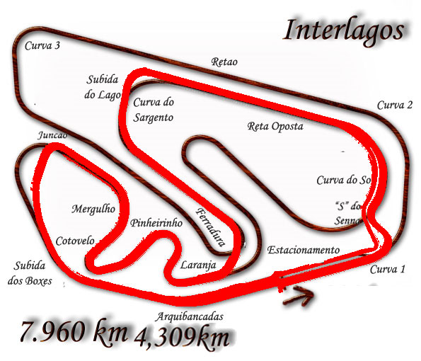 1973 configuration of Autodromo Jose Carlos Pace with present day configuration overlaid.